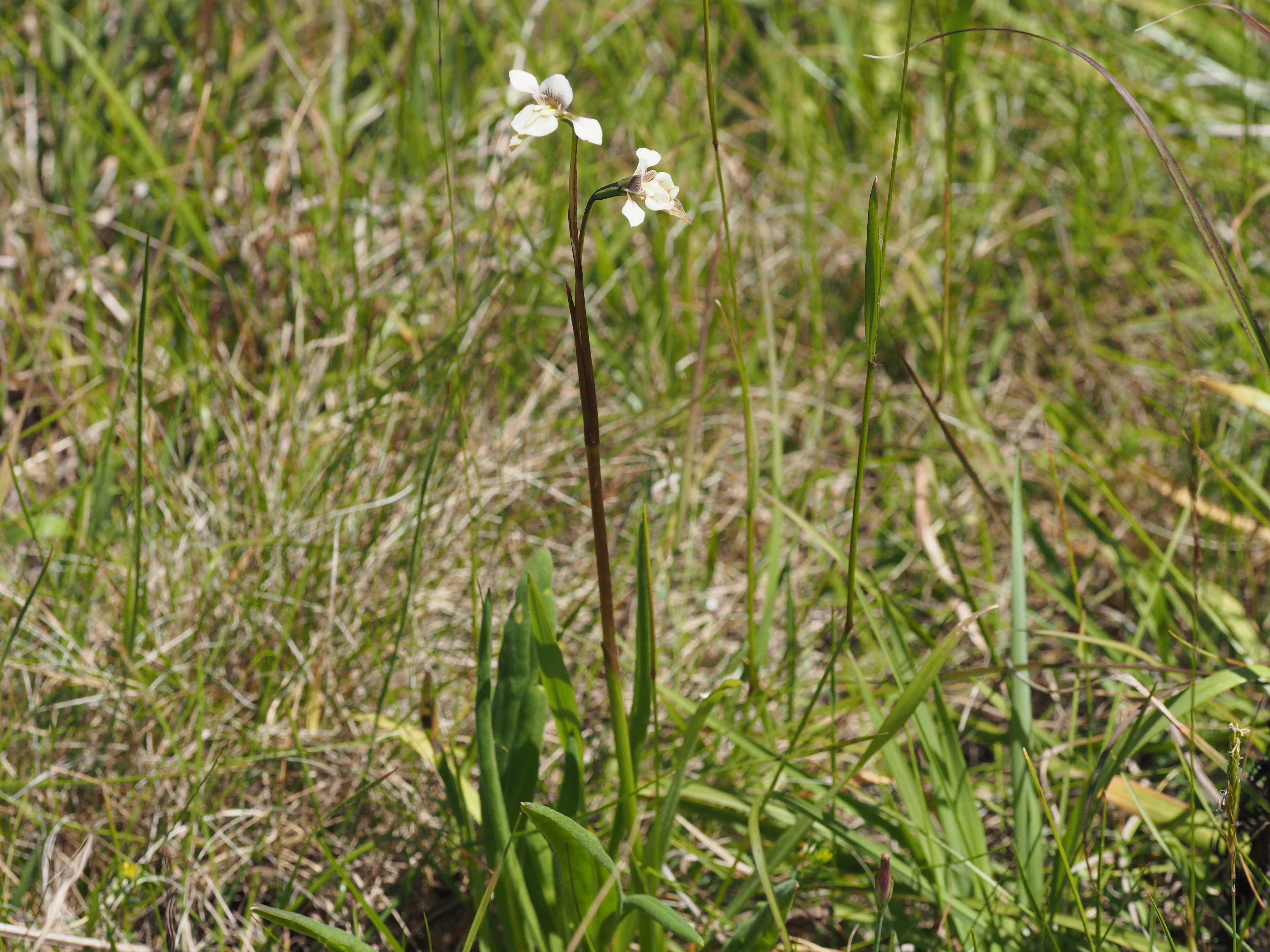 Habit of Diuris eborensis, growing near Ebor